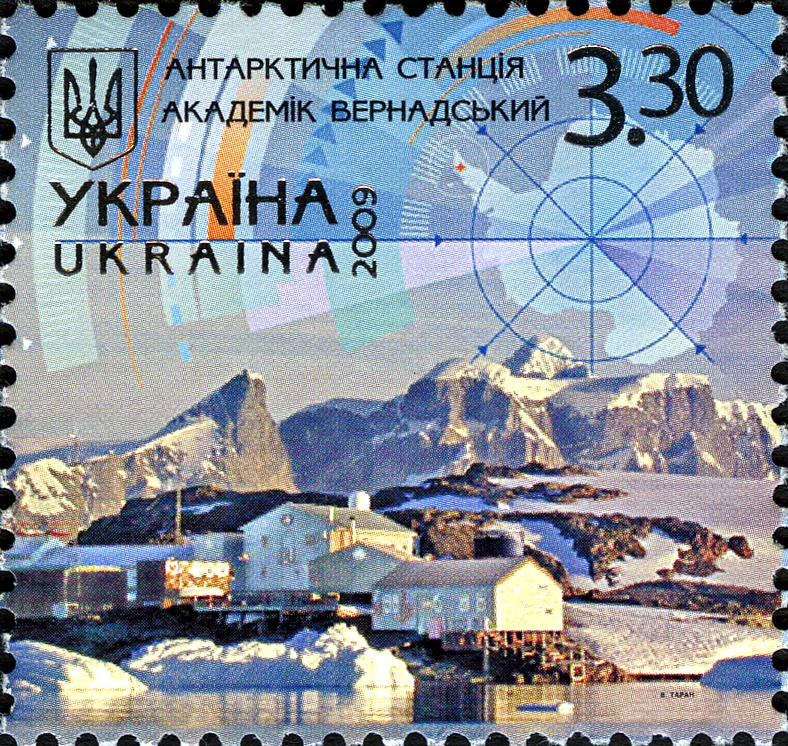 Postage stamp of Ukraine: antarctic station 'Academician Vernadskiy'. 3.30 hrivnas, 2009